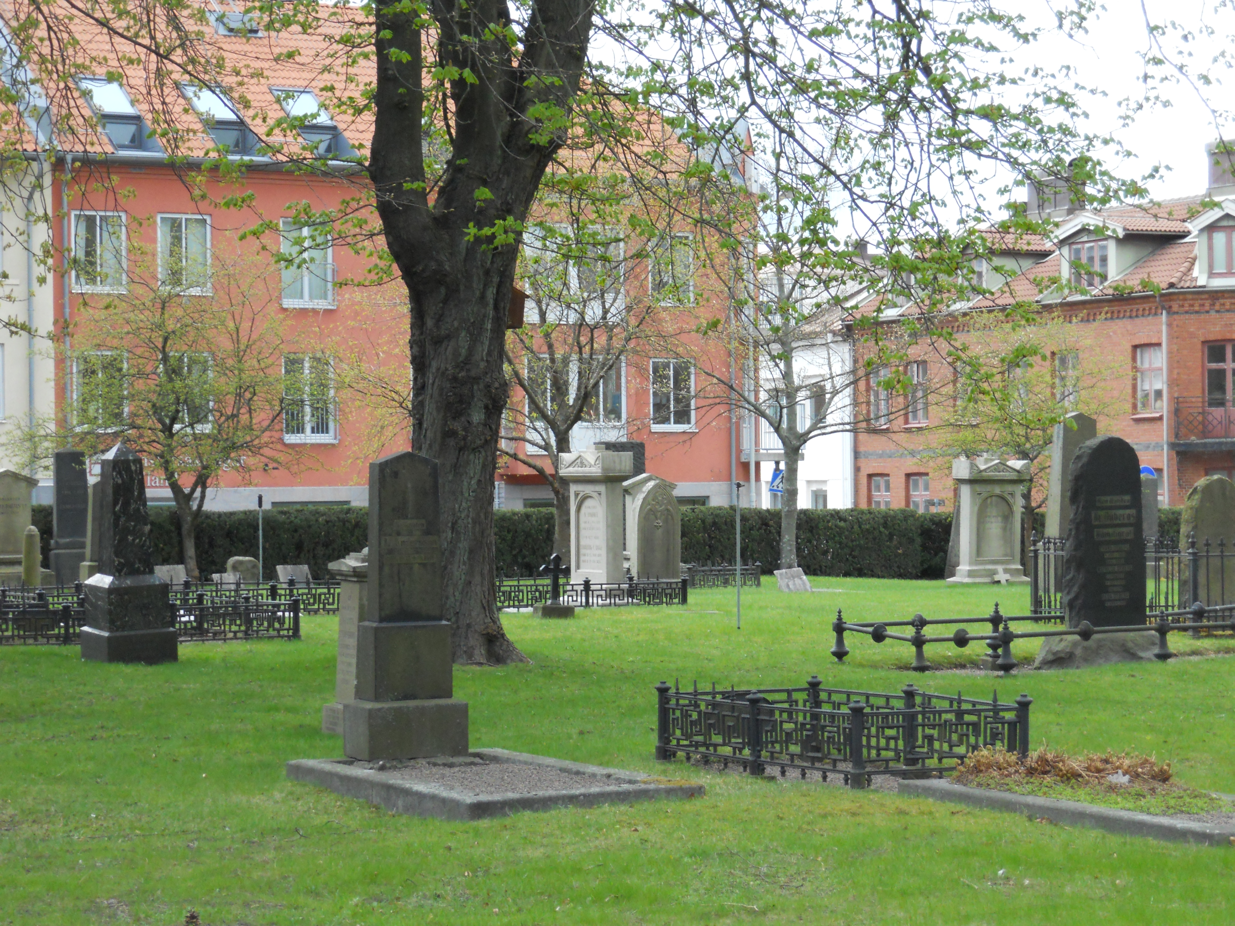 Eastern Cemetery, Varberg, Sweden.